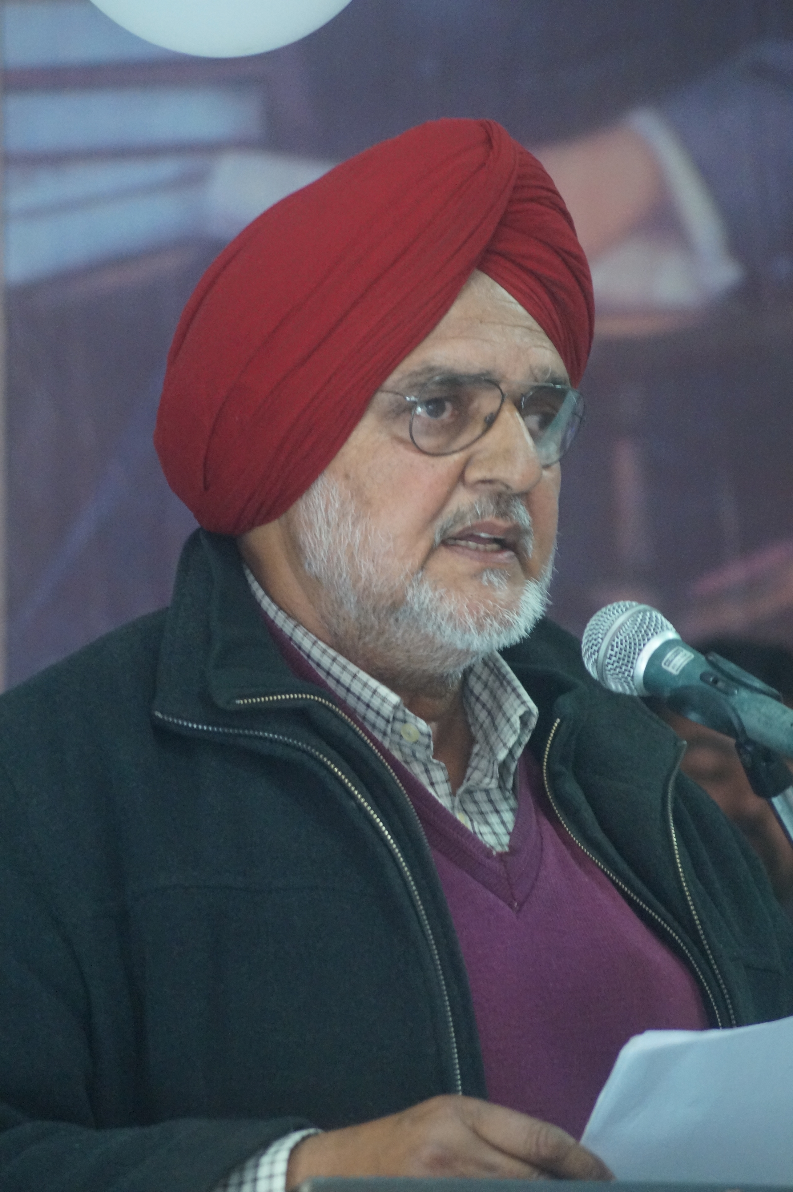 The photo has been clicked at the 22nd Nabha Kaav Utsav on 17 March 2019 at Nabha, Punjab.